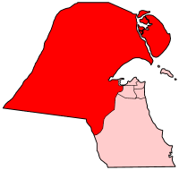 Map of Kuwait showing Al Jahra governorate. Made by User:Golbez.